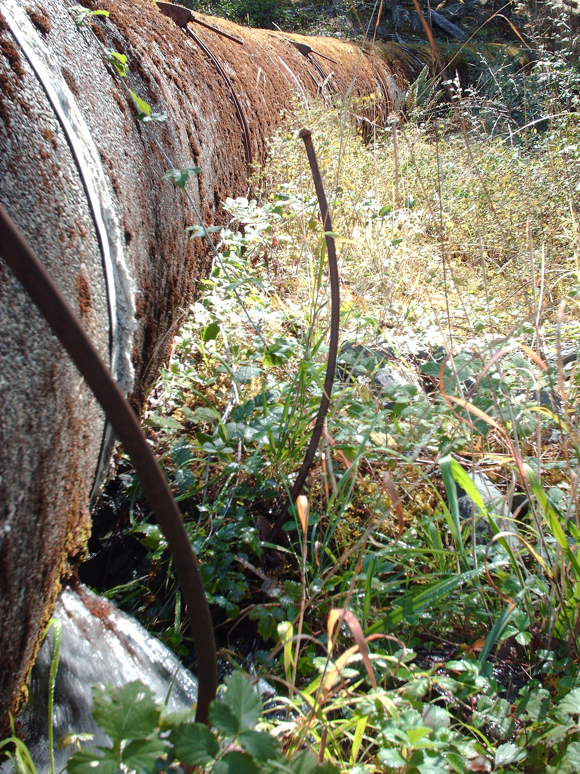 Evidence of leaking on the pipeline.